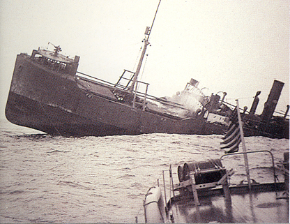 Ashkhabad shelled (Courtesy of the National Archives)